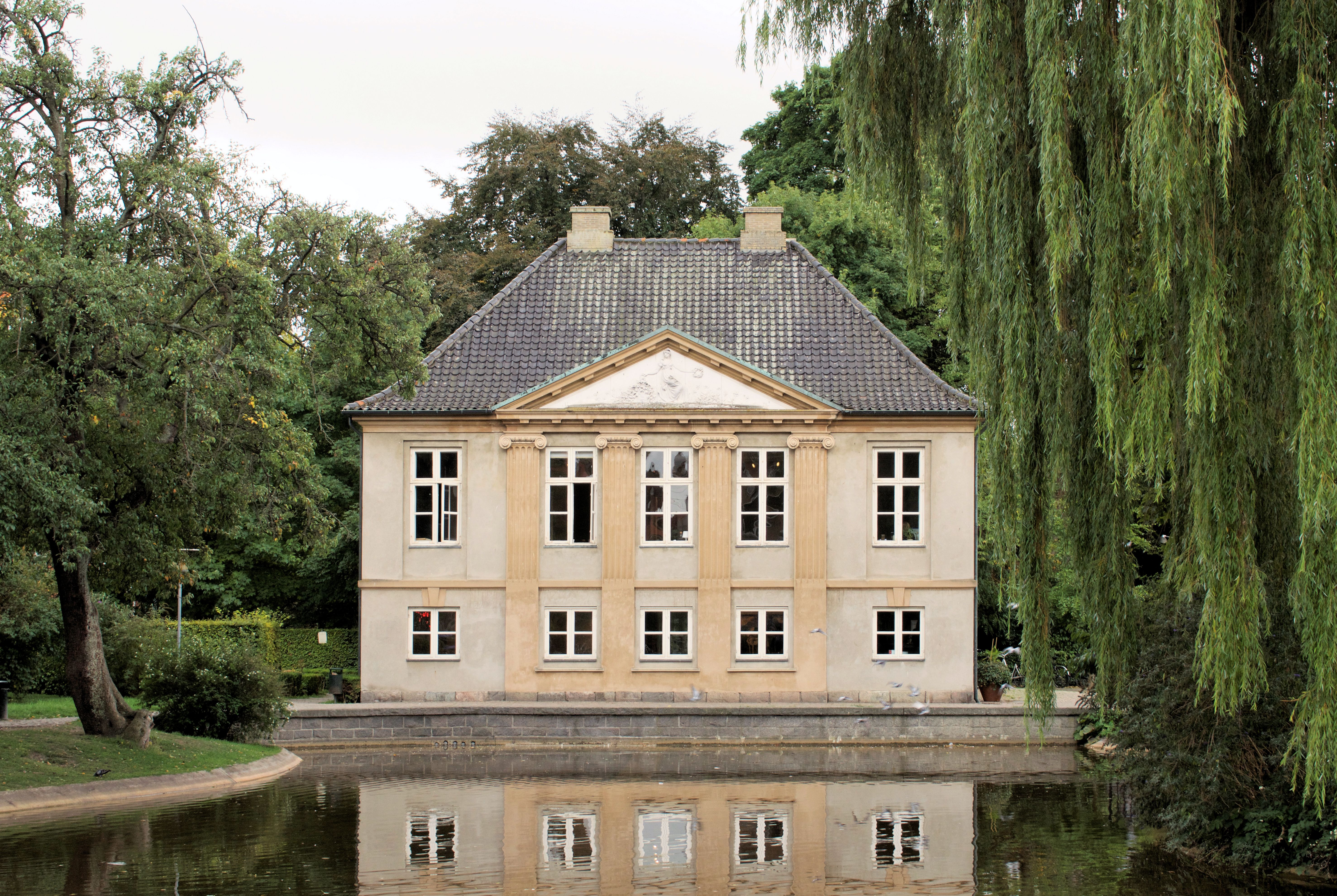 Møstings Hus listed building in Frederiksberg, Denmark